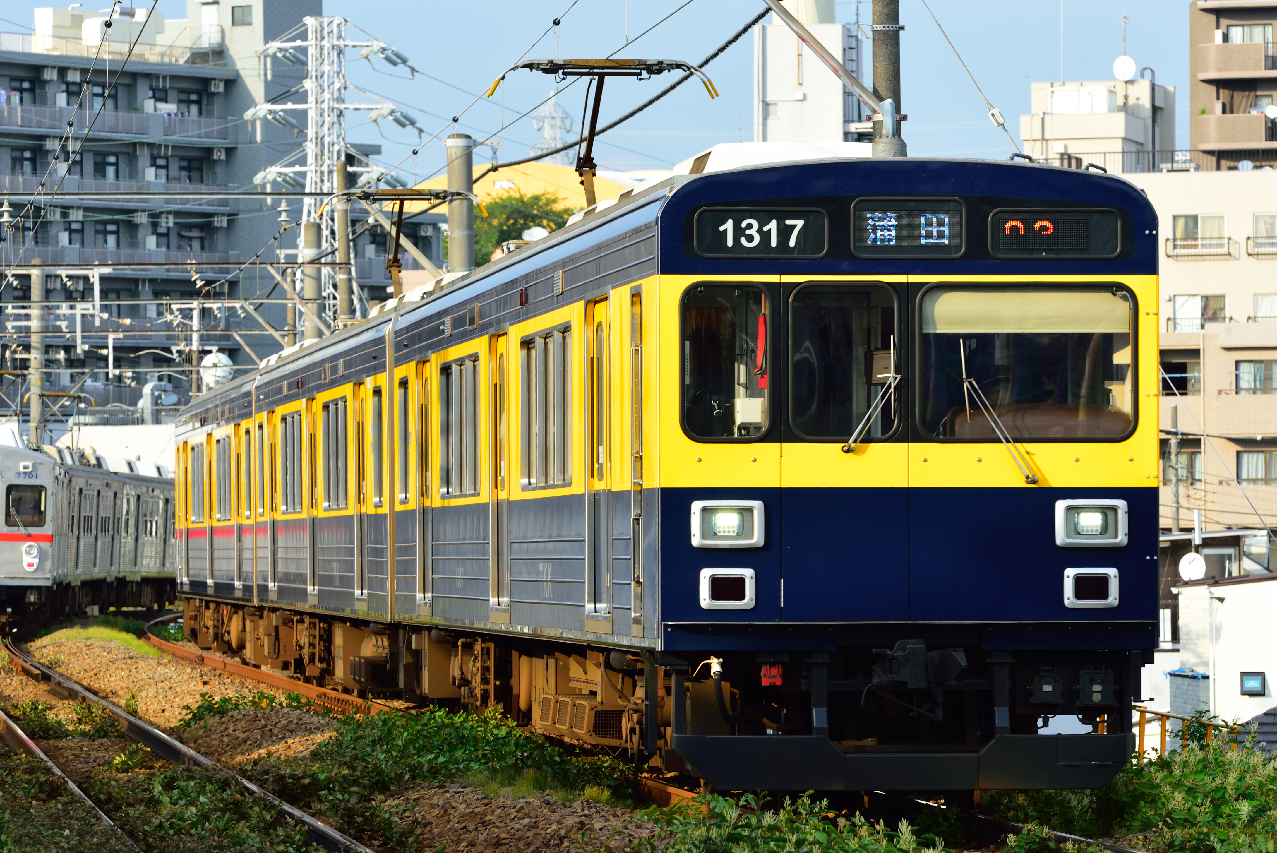 Tokyu 1000 series EMU set 1017 in retro-style livery between Yukigayaotsuka and Ishikawadai stations on the Tokyu Ikegami Line